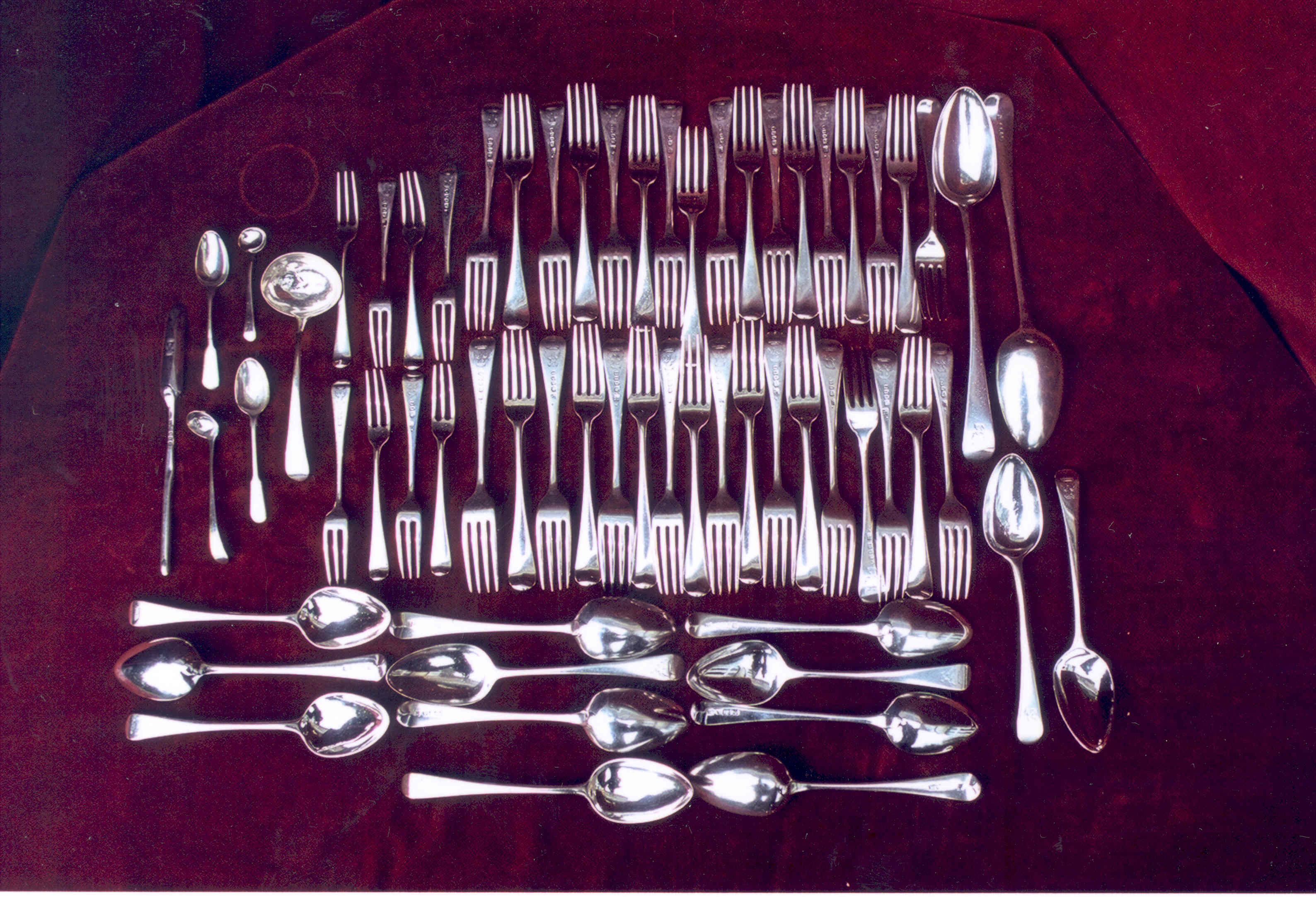 Georgian forks(photo: R. de Salis, Feb. 2006).Rodolph 11:15, 1 November 2007 (UTC)